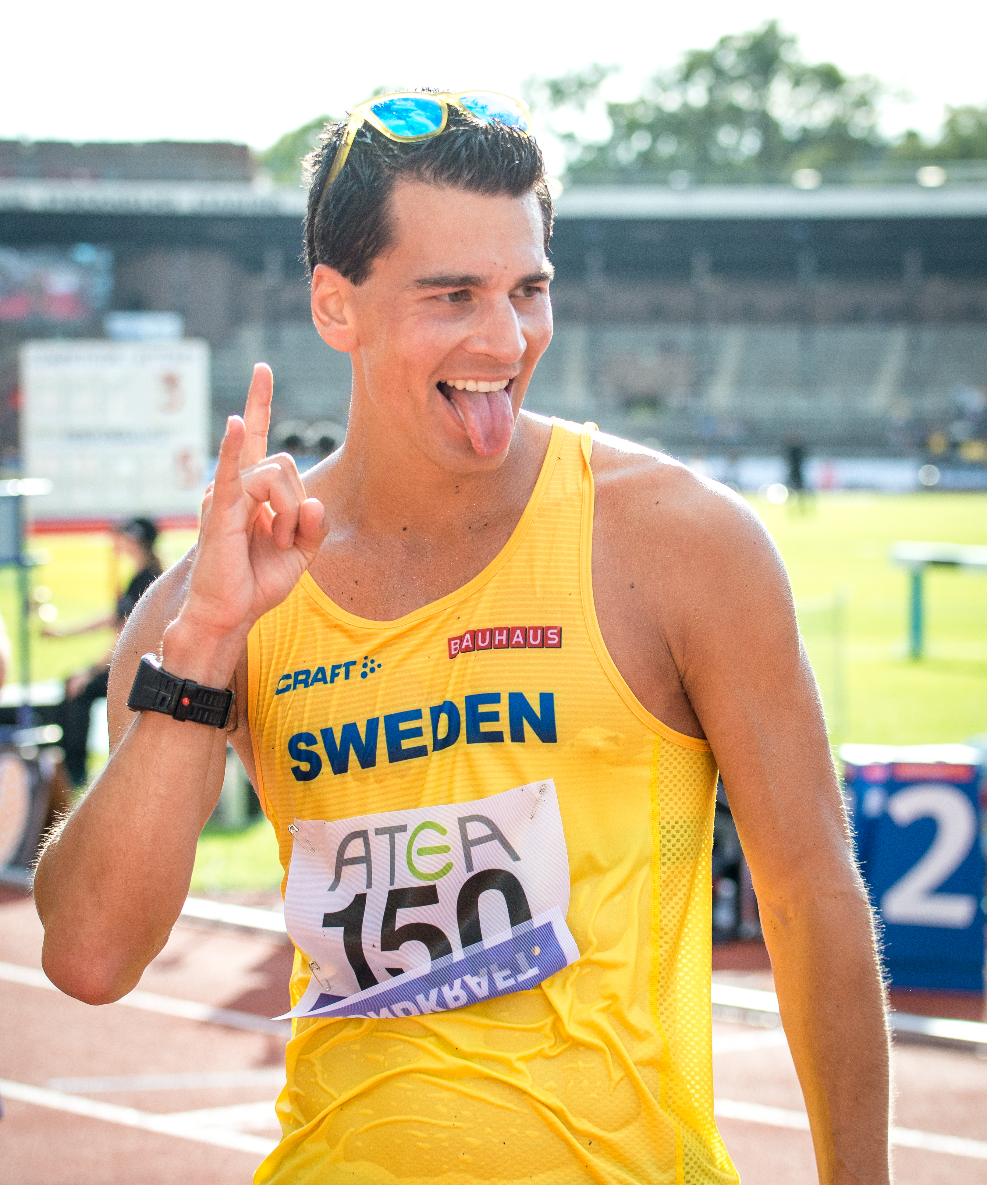 Perseus Karlström during the Finland-Sweden Athletics International at Stockholms Stadion on August 24, 2019.